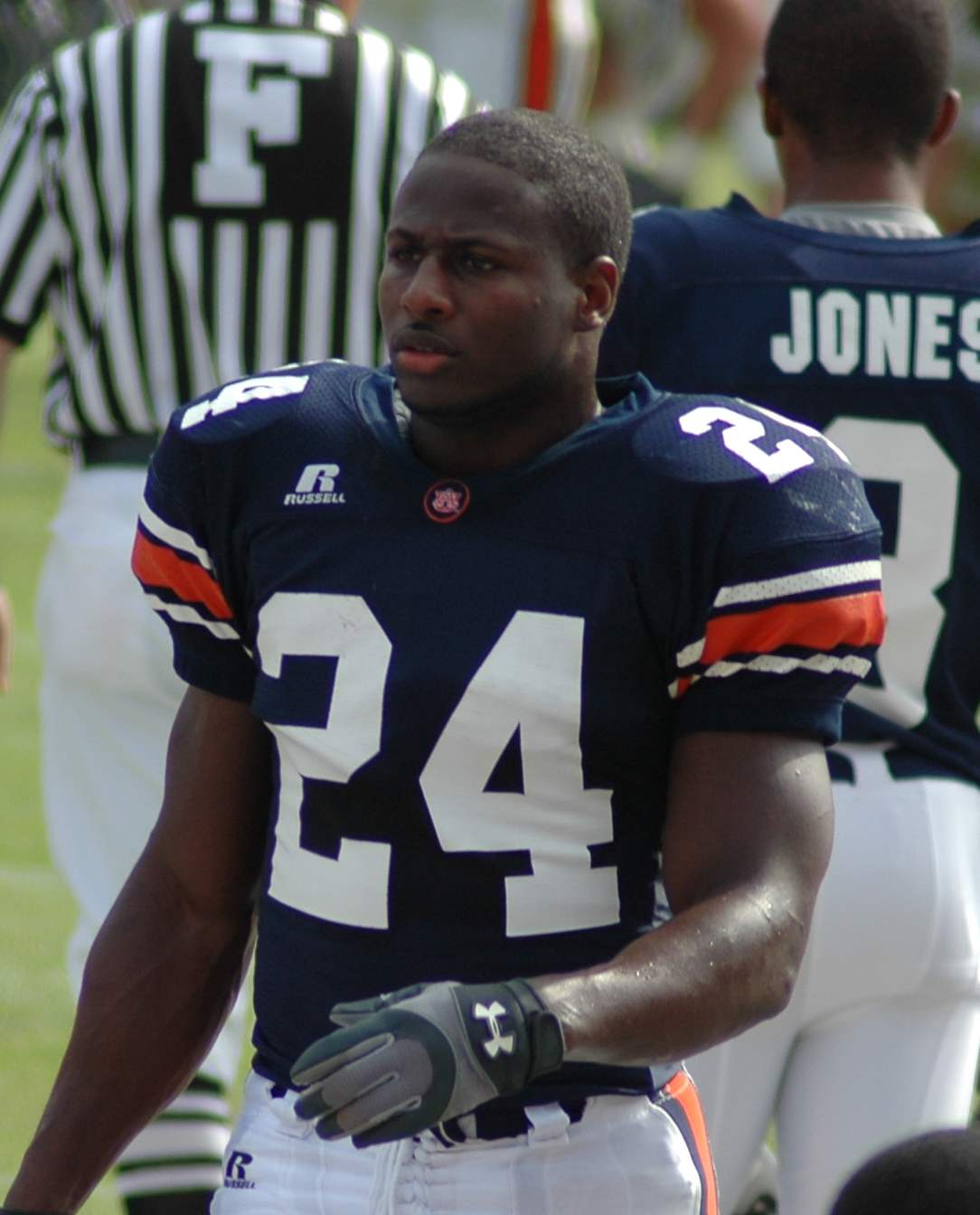 Description: American football Running back Cadillac Williams on the sidelines at a home game at Auburn University. Source: self-made Photographer: J.Glover with a Nikon D70 on October 23, 2004.